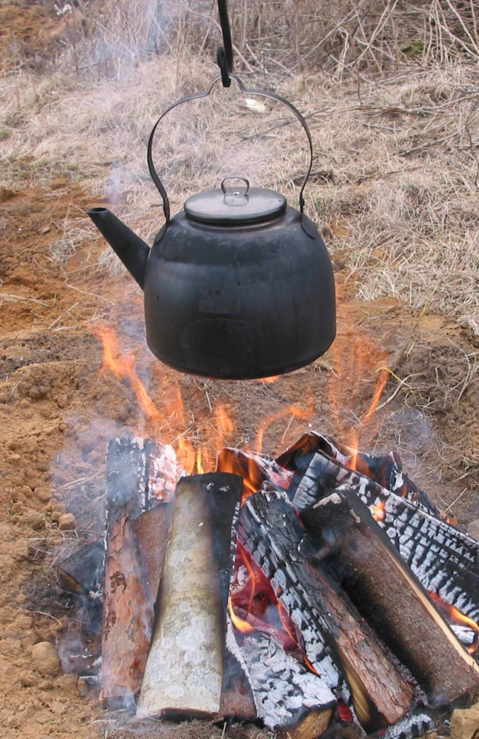 Campfire coffee somewhere in a forest in Uusimaa, Finland, in 2008